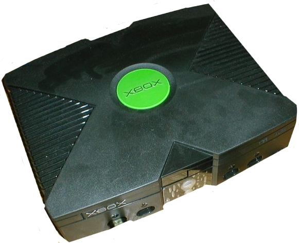 This is a picture of an XBOX.